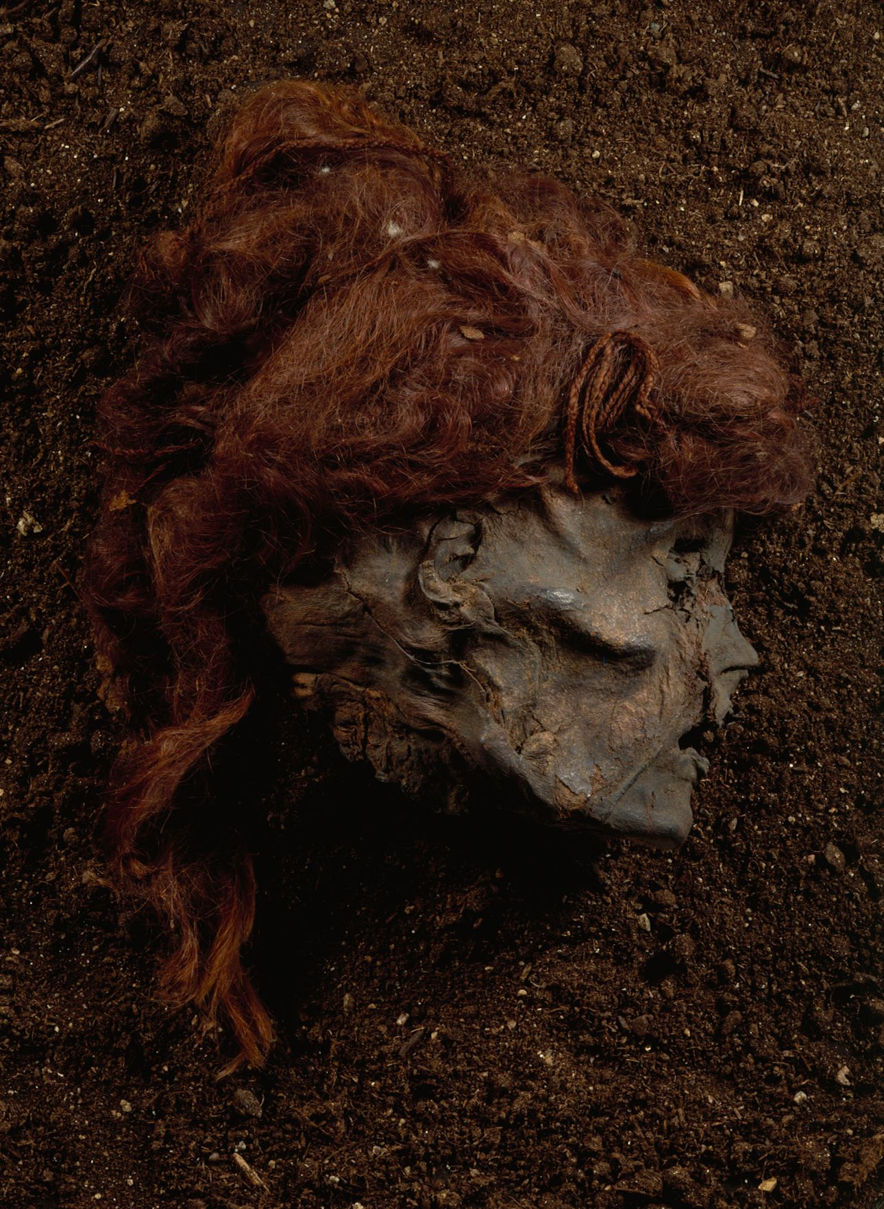 Head of the bog body Stidtsholt Woman.